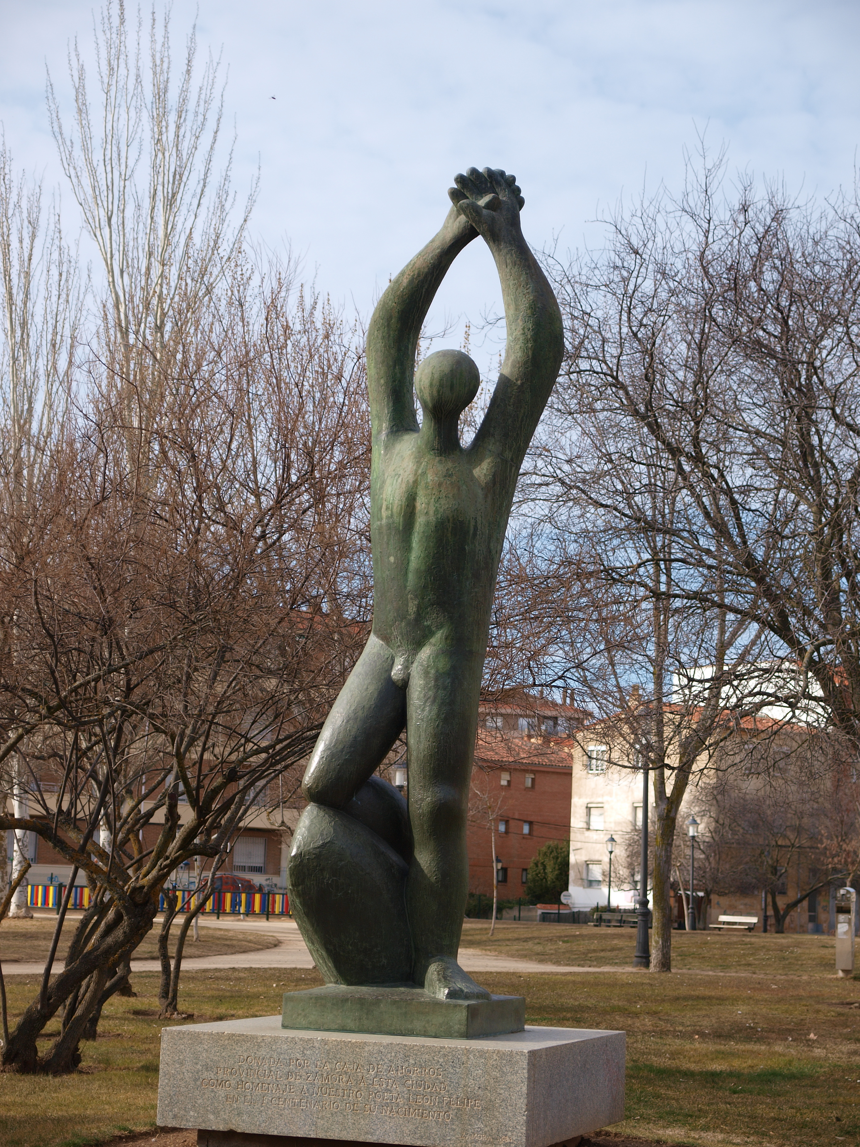 Statue by Baltasar Lobo: Tribute (1984) to the spanish poet Leon Felipe, in the park of this name (Zamora, Spain)